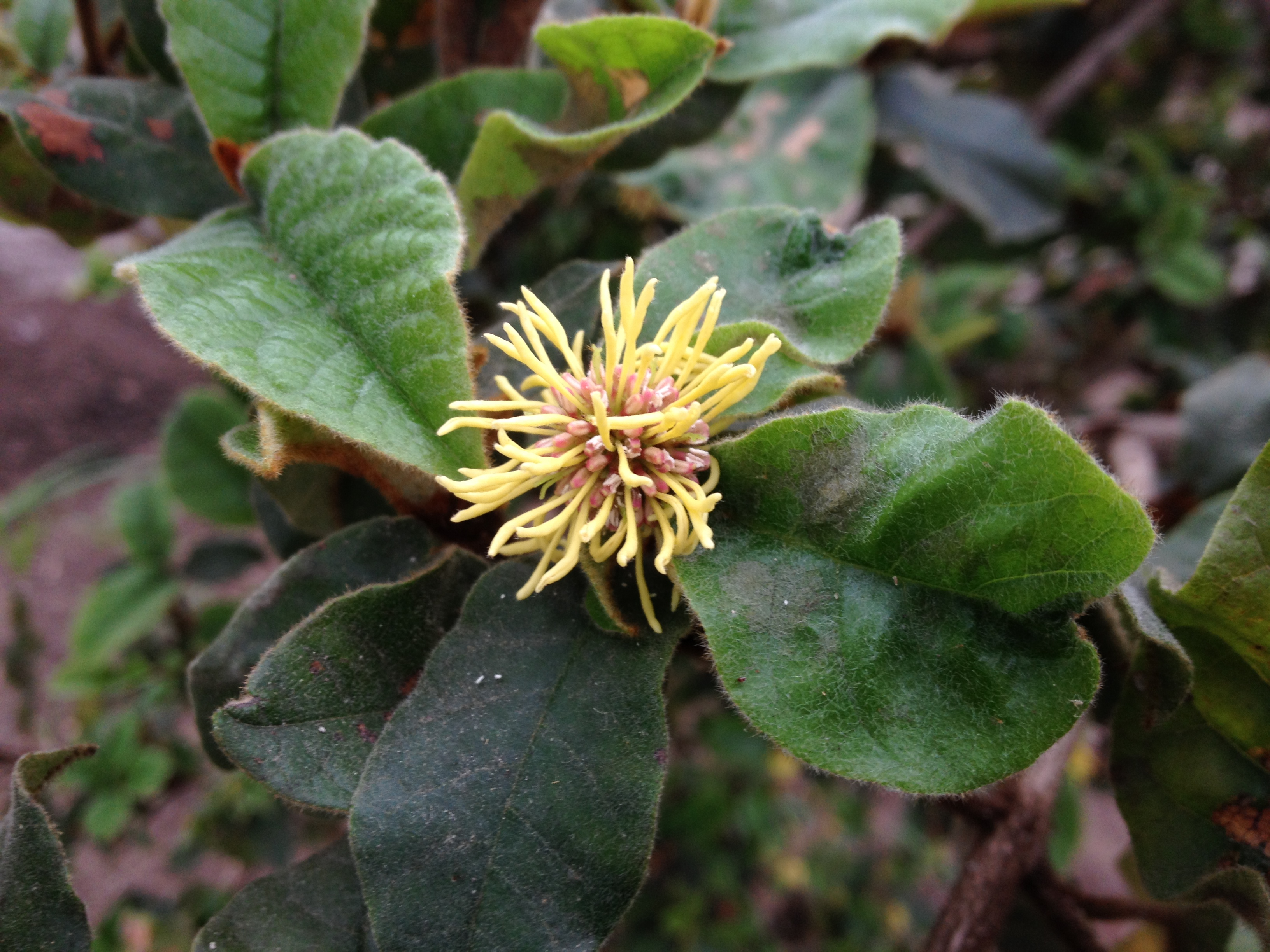 Trichocladus crinitus leaves and flower at Kew Gardens.